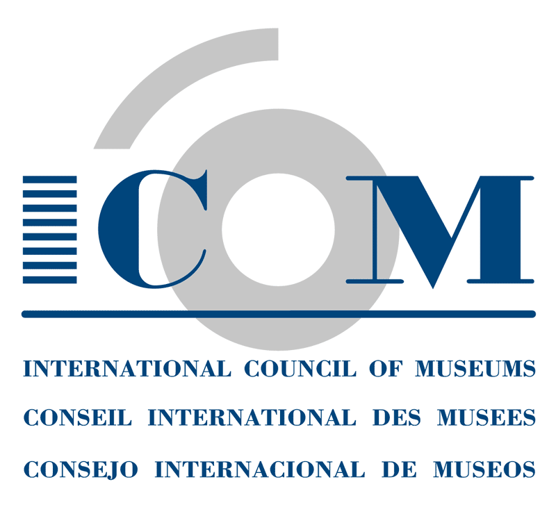 Icom's website logo